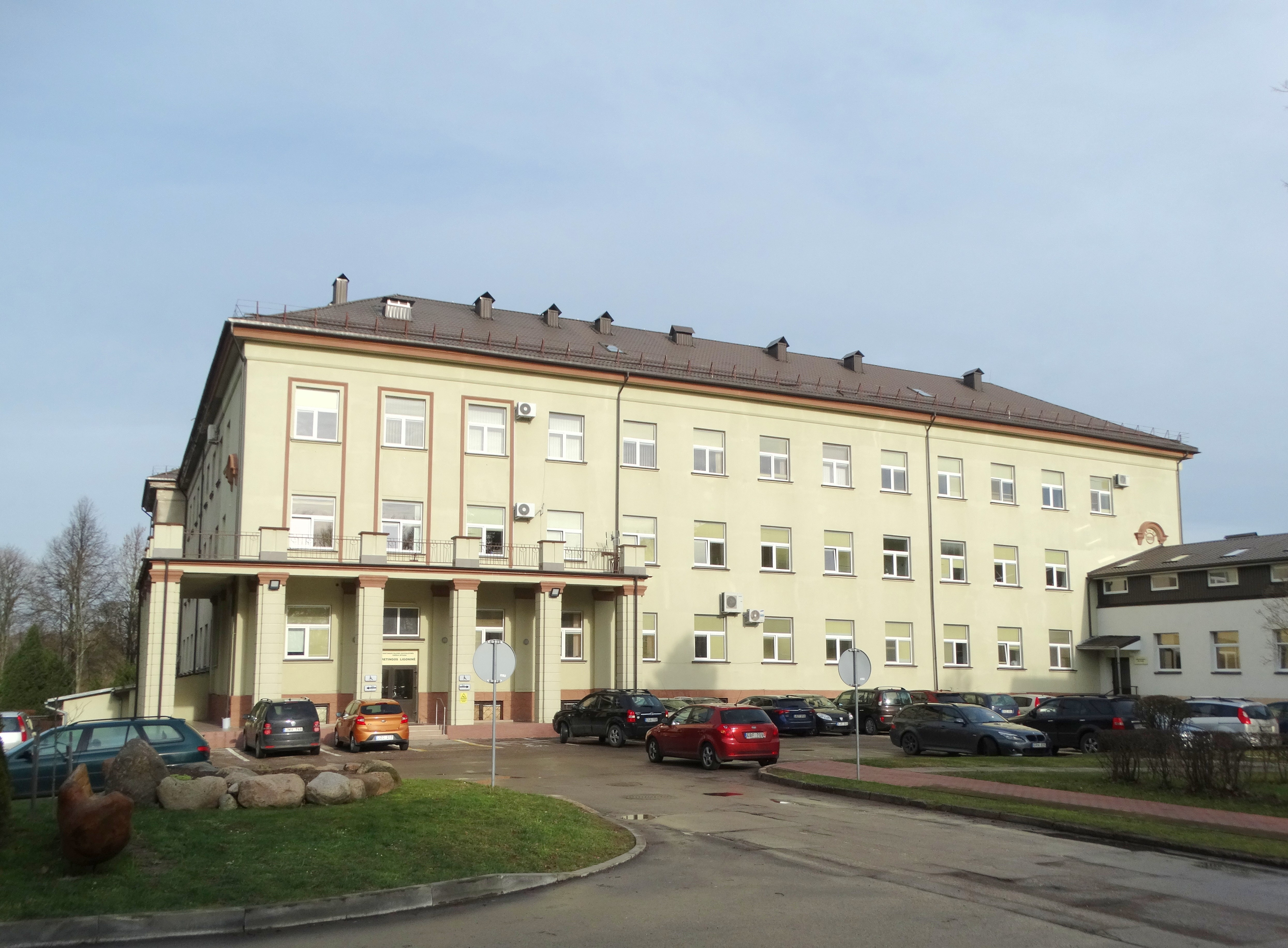 Hospital, Kretinga, Lithuania